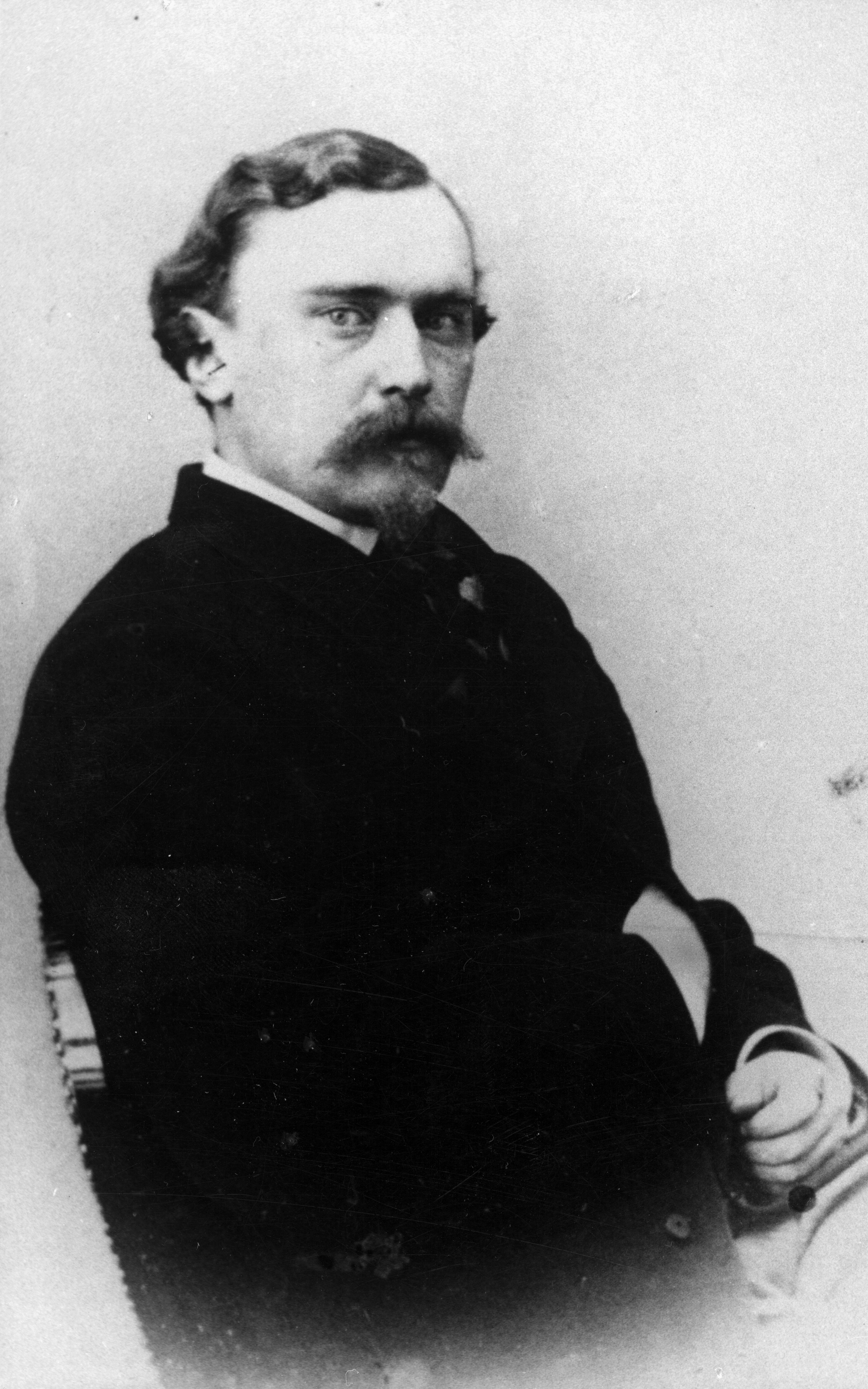 Photograph of the Finnish journalist Robert Olof Lagerborg (1835–1882).